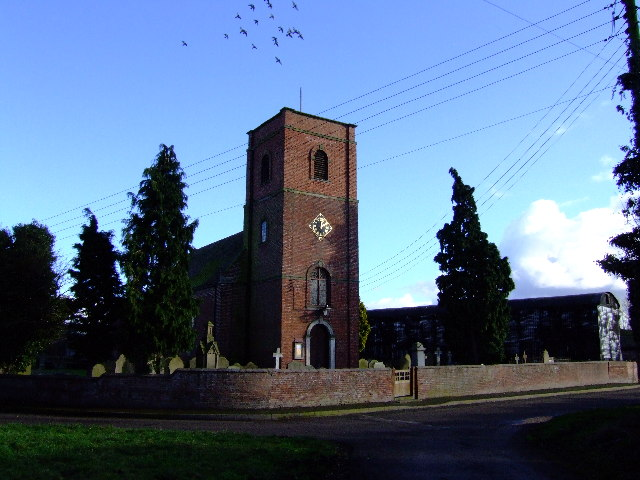 St Lawrence's parish church, Preston upon the Weald Moors, Shropshire, seen from the west